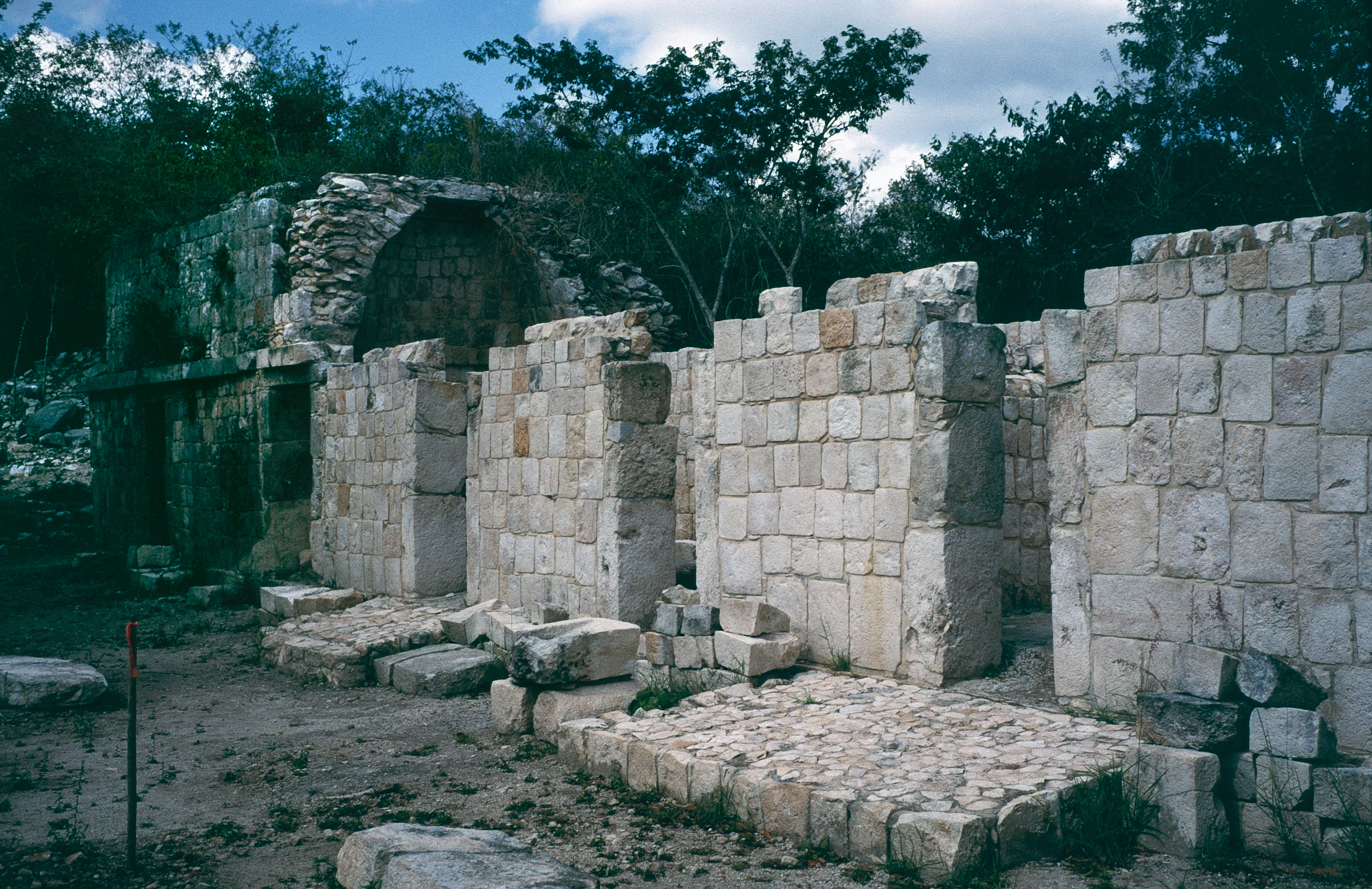 Kabah, Yucatan, Mexico: building 1A6